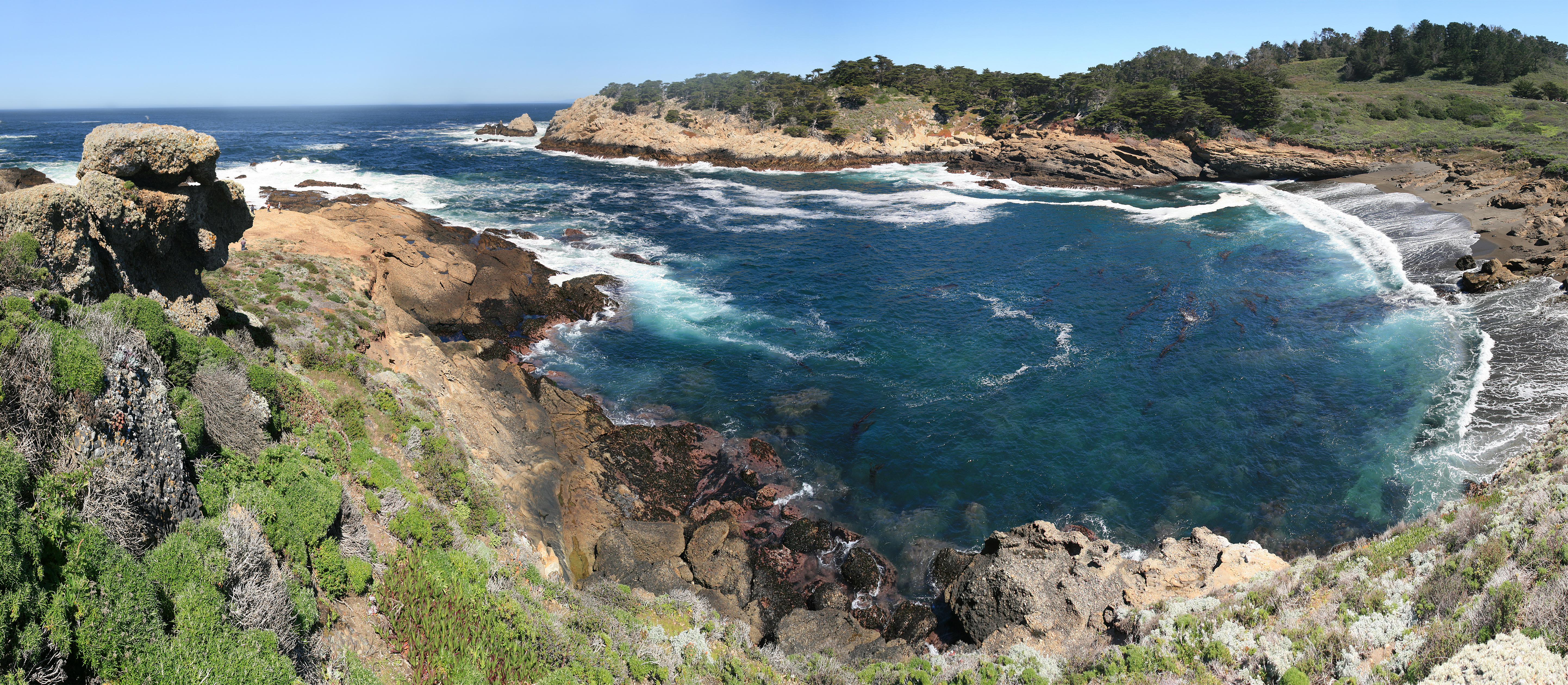 Rock formations at Point Lobos State Reserve, near Monterey, California. California coastal sage and chaparral habitat flora.